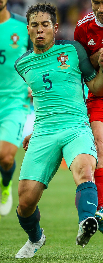 Russia VS. Portugal 0 - 1, 21 June 2017